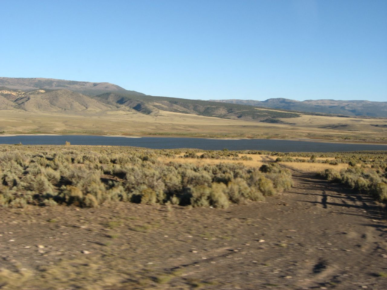 Otter Creek Reservoir is a high alpine reservoir (elevation approximately 6,372 ft or 1,940 m) located in Piute County Utah, United States. It is a popular location for rainbow trout fishing. The nearest town is Antimony, approximately 12 to 15 miles away (19–24 km). A larger city within a one hour drive is Richfield.